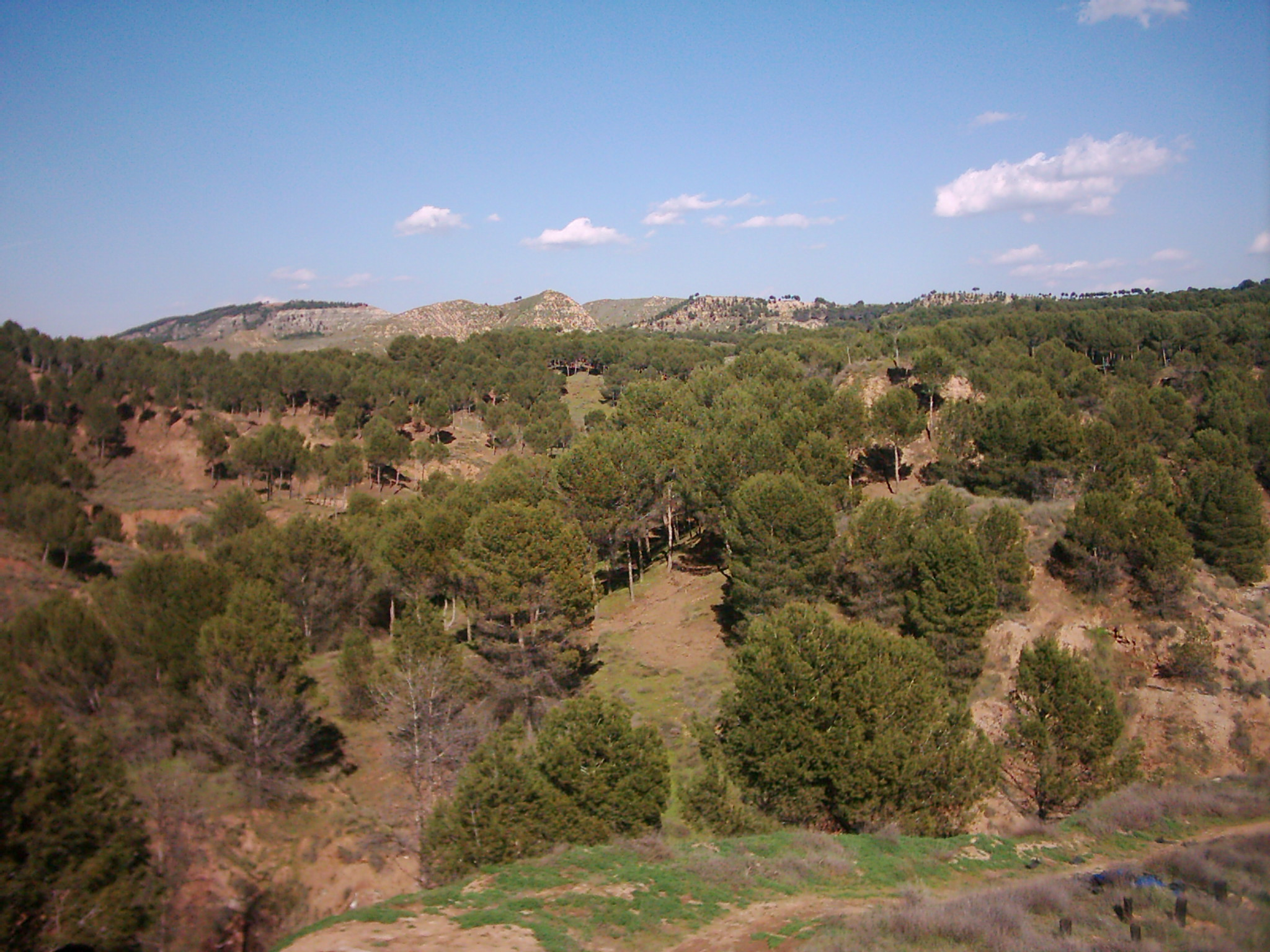 Parque de los cerros is a protected natural landscape in the nearby of Alcalá de Henares (Community of Madrid - Spain). It shelter a good numbers of birds spieces and several environment: riverside forest, pine forest...